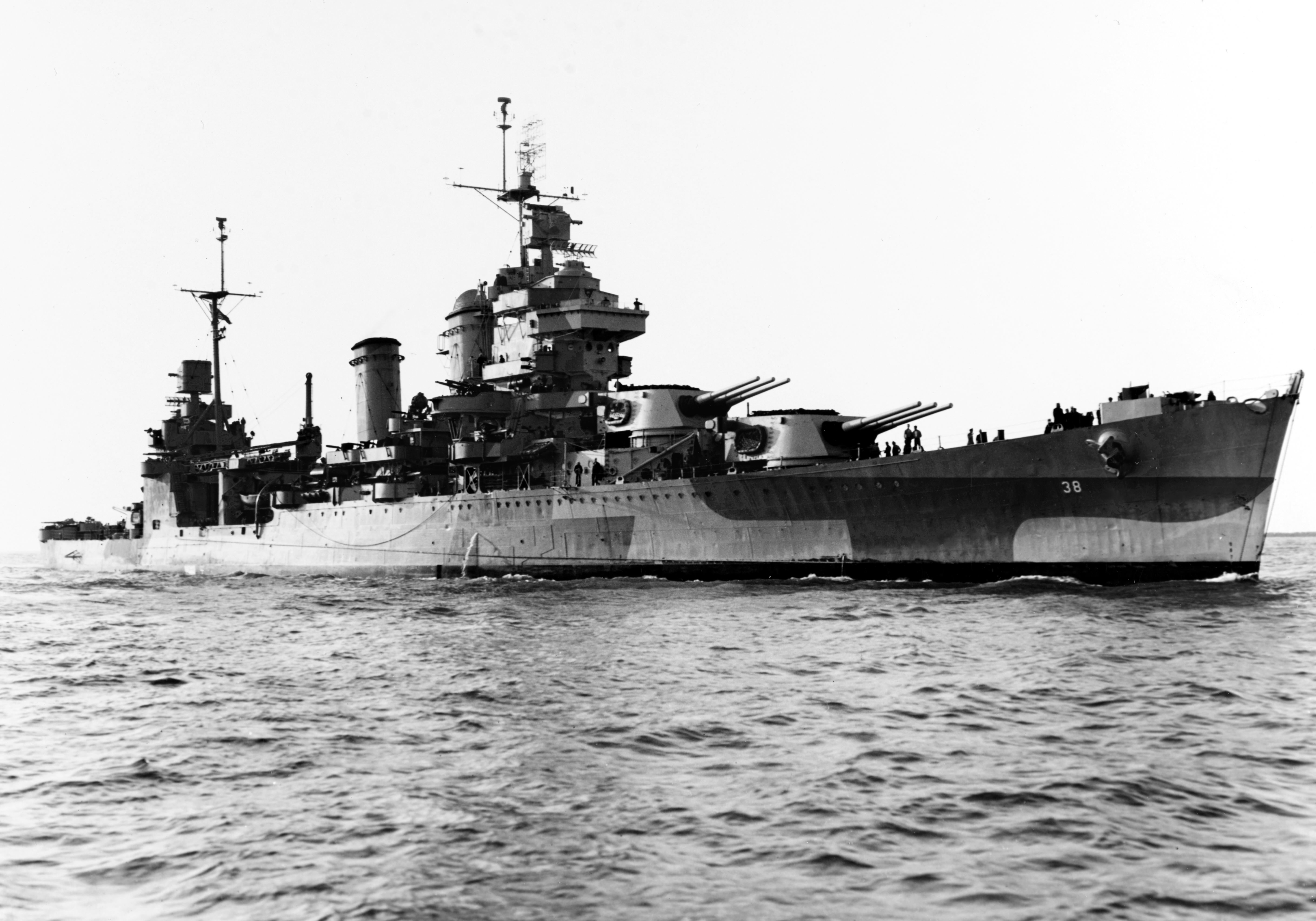 The U.S. Navy heavy cruiser USS San Francisco (CA-38) off the Mare Island Naval Shipyard, California (USA), following overhaul, on 13 October 1944. She is painted in Camouflage Measure 33, Design 13D.